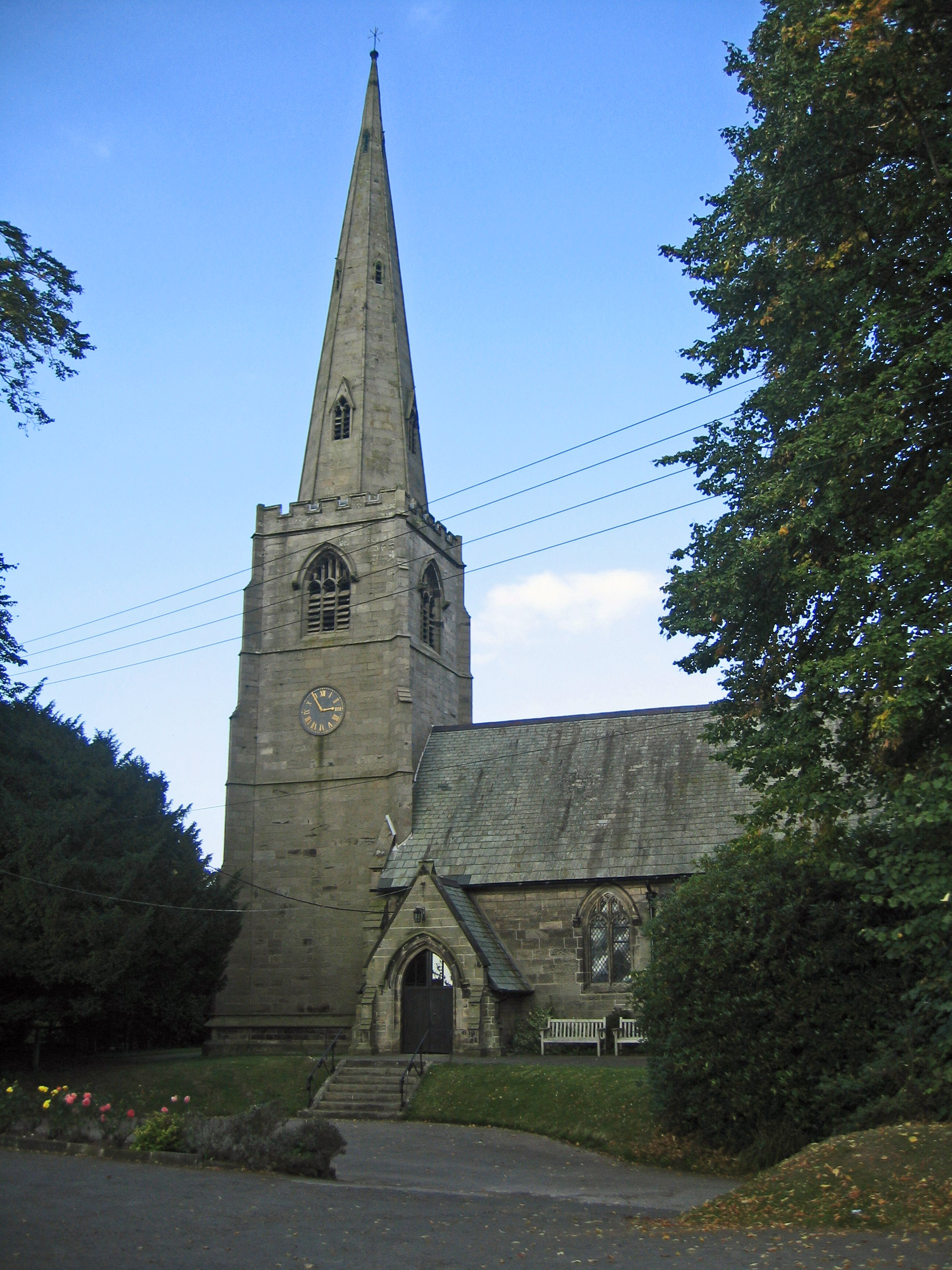 Parish church of St John the Evangelist, Ashton Hayes, Cheshire, seen from the south